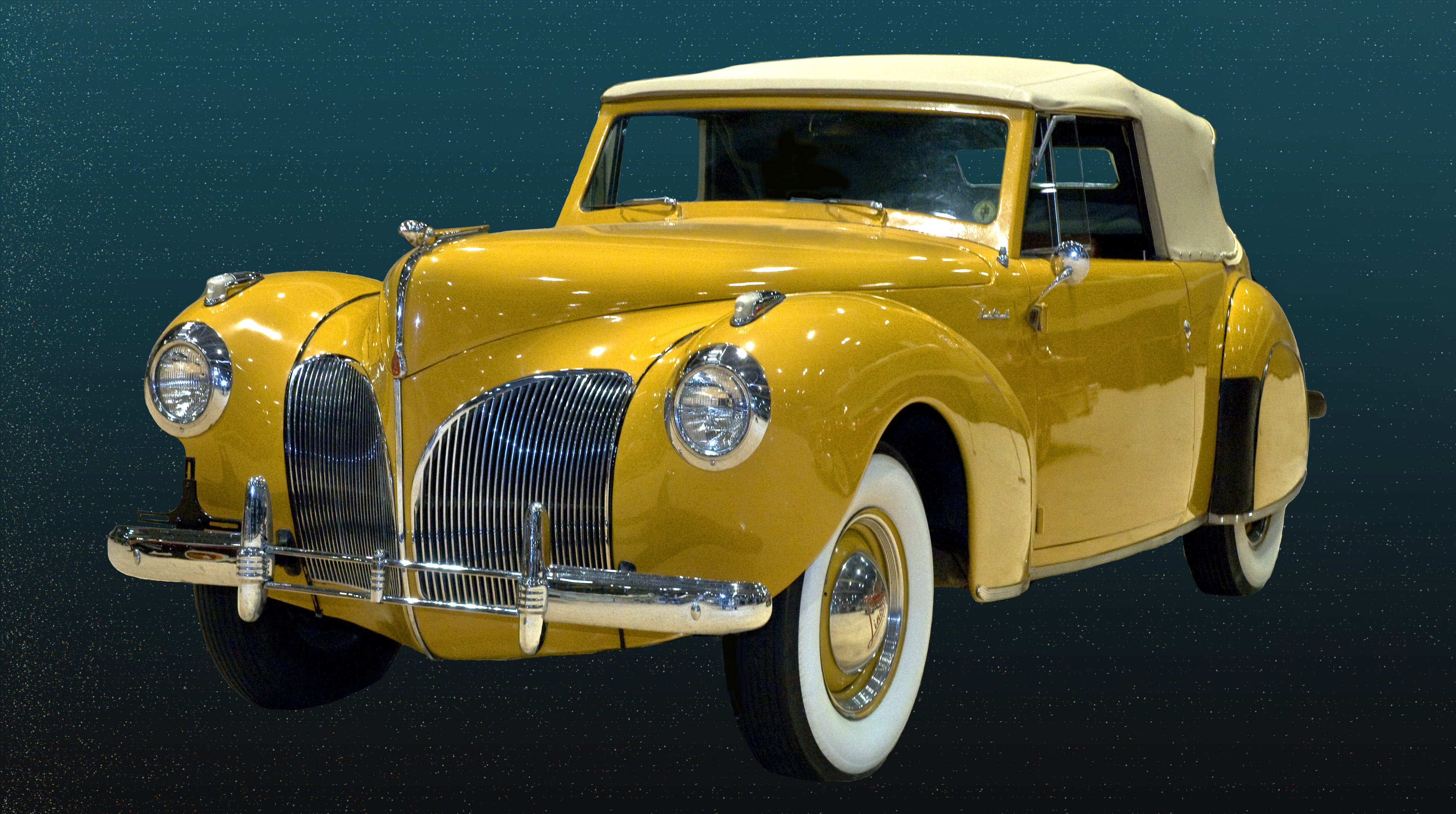 The first Lincoln Continental was developed as Edsel Ford's one-off personal vehicle, though it is believed he planned all along to put the model into production if successful. In 1938, he commissioned a custom design from the chief stylist, Eugene T. "Bob" Gregorie, ready for Edsel's March 1939 vacation. The design, allegedly sketched out in an hour by Gregorie working from the Lincoln Zephyr blueprints and making changes, was an elegant convertible with a long hood covering the Lincoln V12 and long front fenders, and a short trunk with what became the Continental series' trademark, the externally mounted covered spare tire# There was hardly any trim on it at all, making its lines superb# This car is often rated as one of the most beautiful in the world#